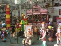 Gavioli Band Organ located at the American Treasure Tour